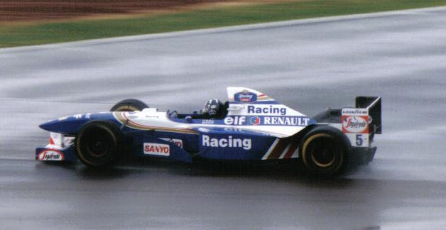 Damon Hill driving for WilliamsF1 at the 1995 British Grand Prix.